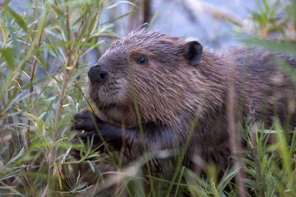 North American Beaver at Carburn Park in Calgary, Alberta. Photo by Chuck Szmurlo taken July 30 2005 with a Nikon D70 and a Nikon 70-200 f2.8 lens